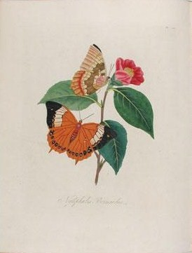 Plate from Edward Donovan Epitome of the insects of China 1798